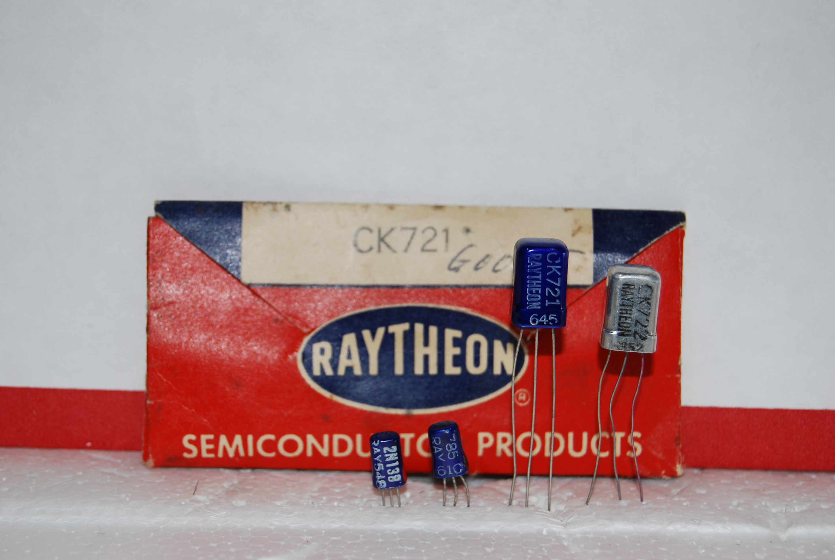 Size comparison of Raytheon hearing aid transistors and CK721 + CK722 hobby transistors